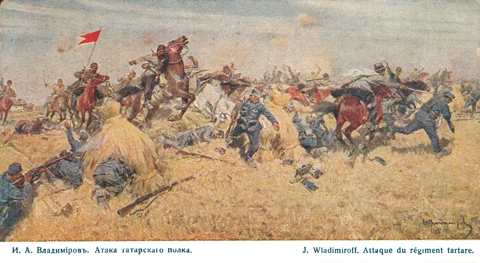 Attack of the Tatar regiment. Russian postcard